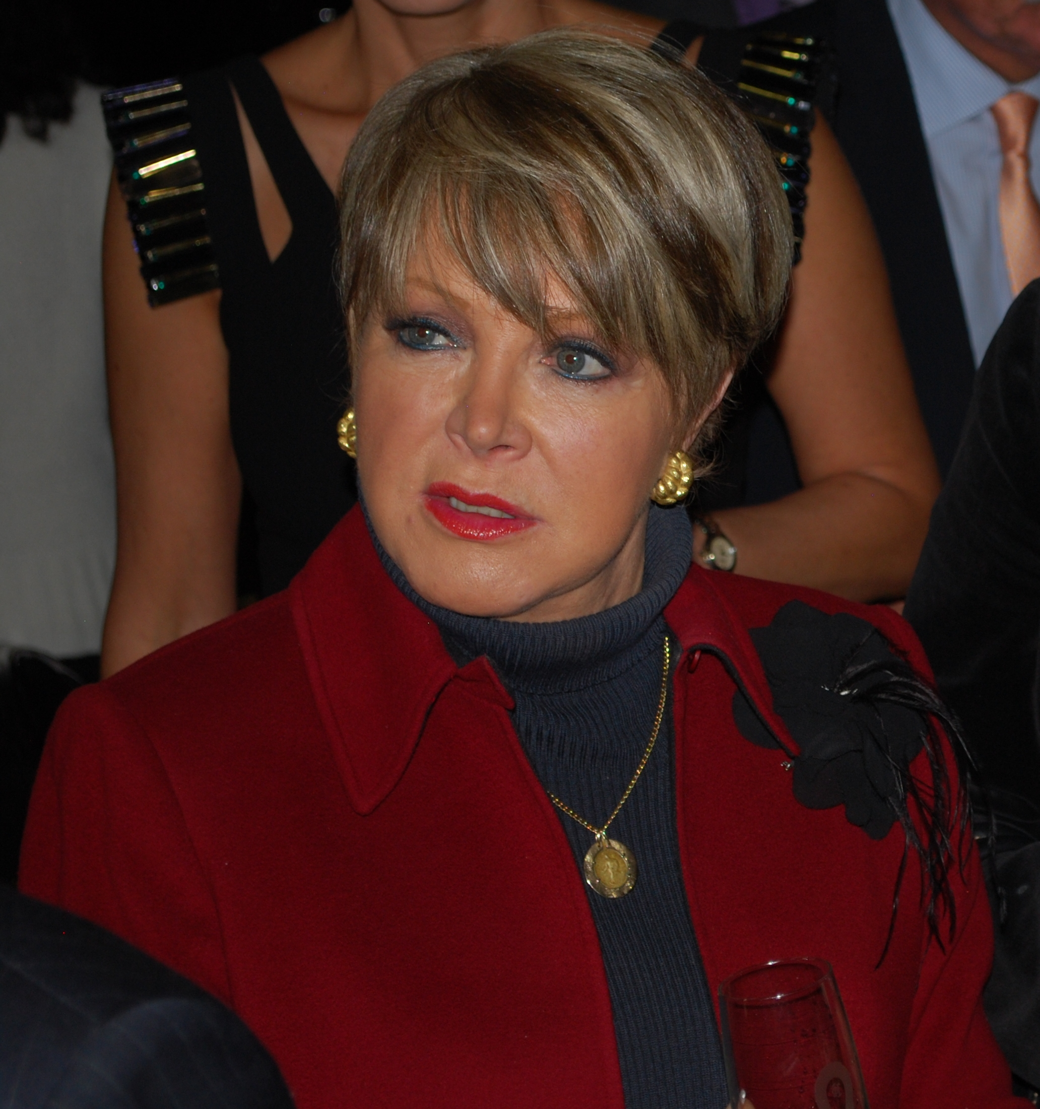 Lolita Ayala and Sonia Santos at the Arte en Barricas event of Herradura Tequila at the Centro Cultural Indianilla in Mexico City |date=2012-11-13 19:43:09